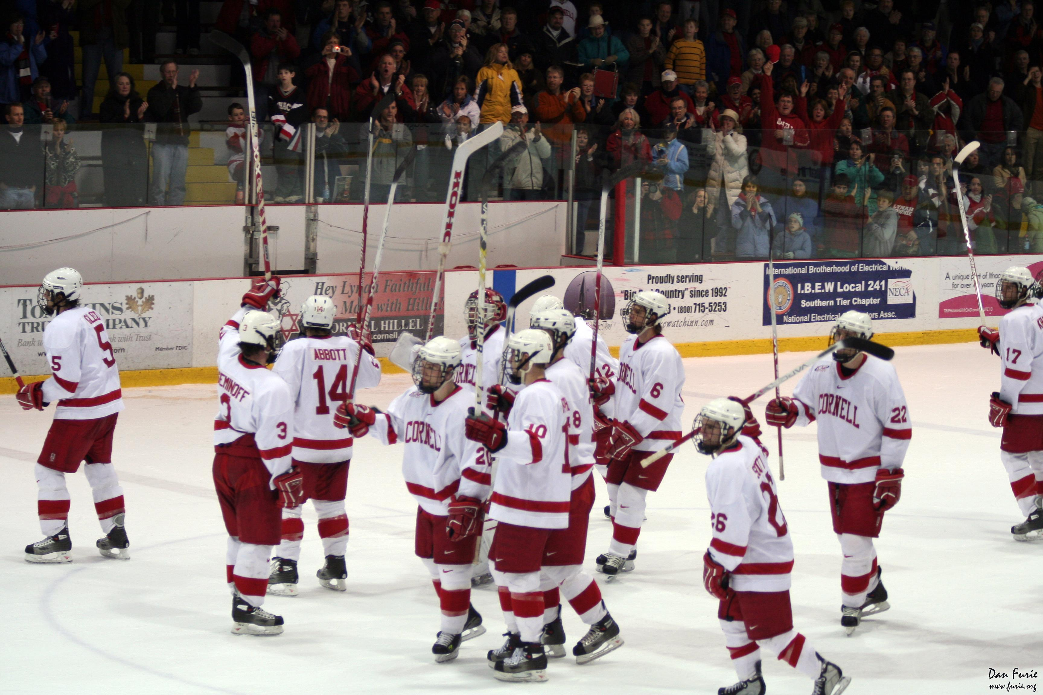 Cornell Big Red, ice hockey team of the Cornell University (Mercuryboard's friend's picture, permission given by creator, I have altered the picture to make it brighter) Taken by Dan Furie